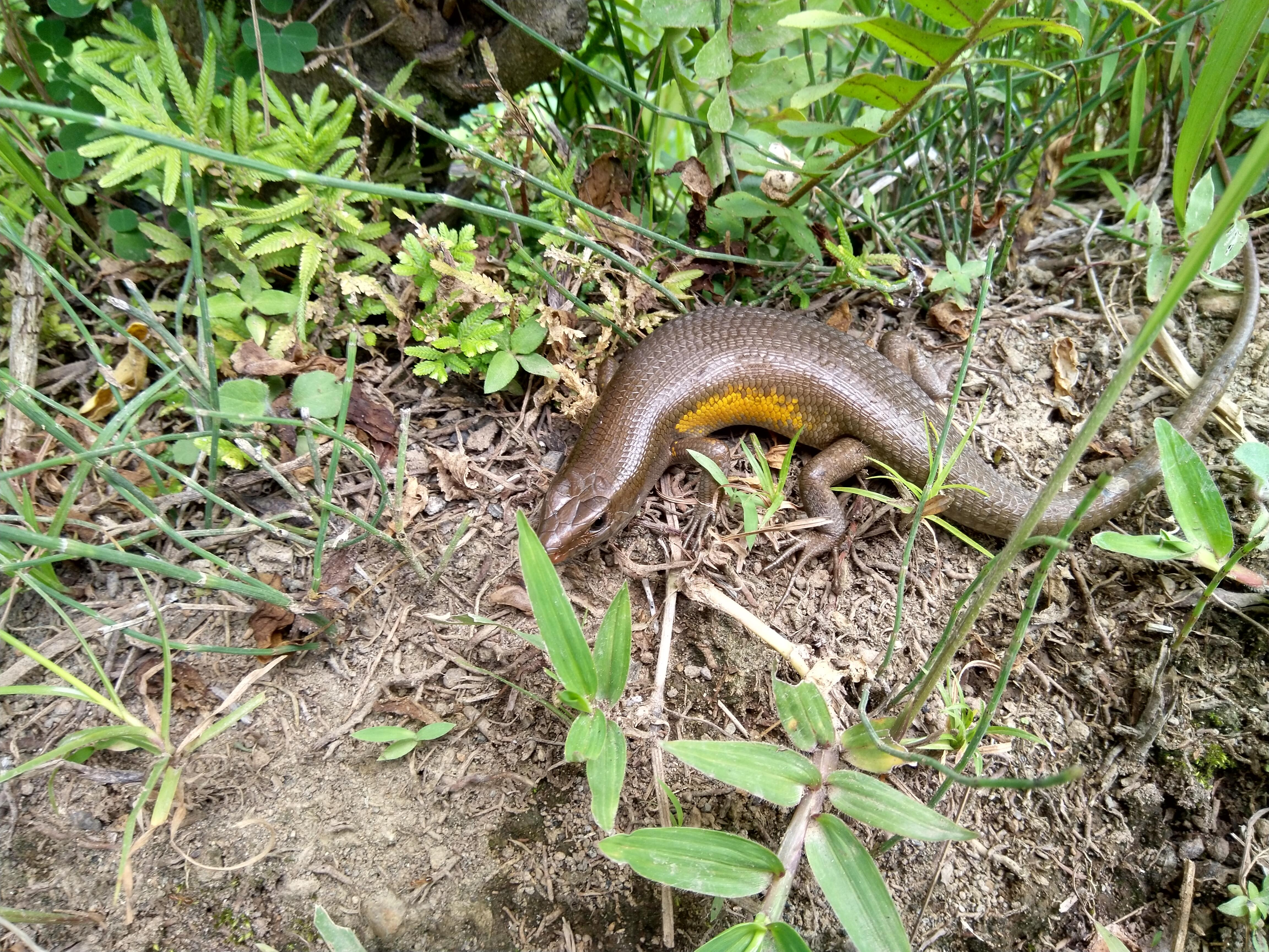 Many-striped skink in Ubud District, Bali, Indonesia